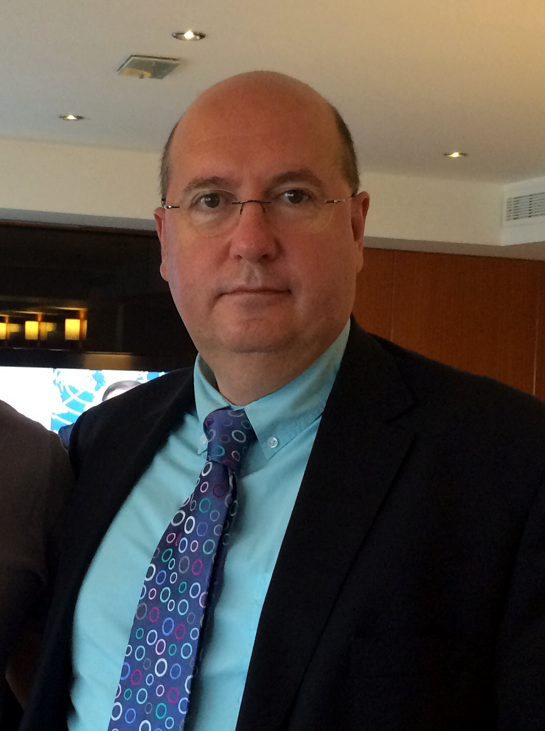 With my friend Rafael Bardají, former National Security Advisor of Spain